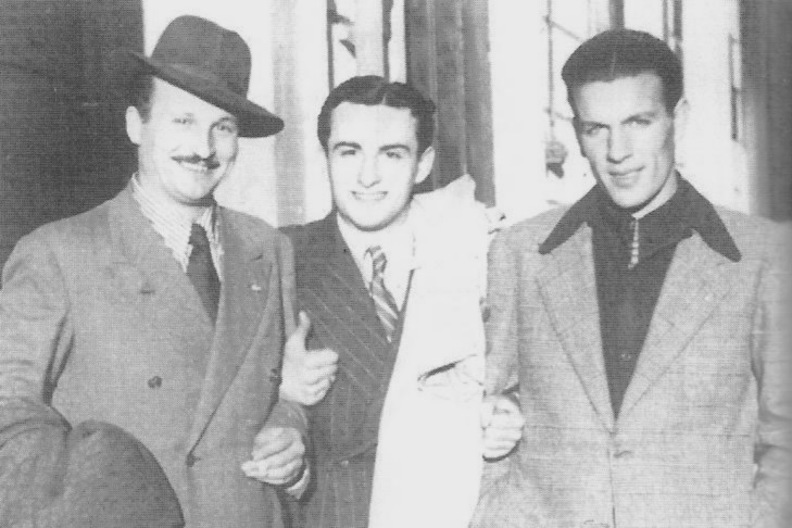 The founders of Associazione Calcio Cesena: from left to right Alberto Rognoni (first president of the club), Renato Piraccini (team director), and Arnaldo Pantani (player - coach).